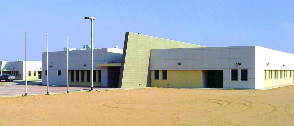 One of four squadron operation complexes at Israeli Air Force base in Nevatim, Israel. Building managed by the U.S. Army Corps of Engineers Europe District.